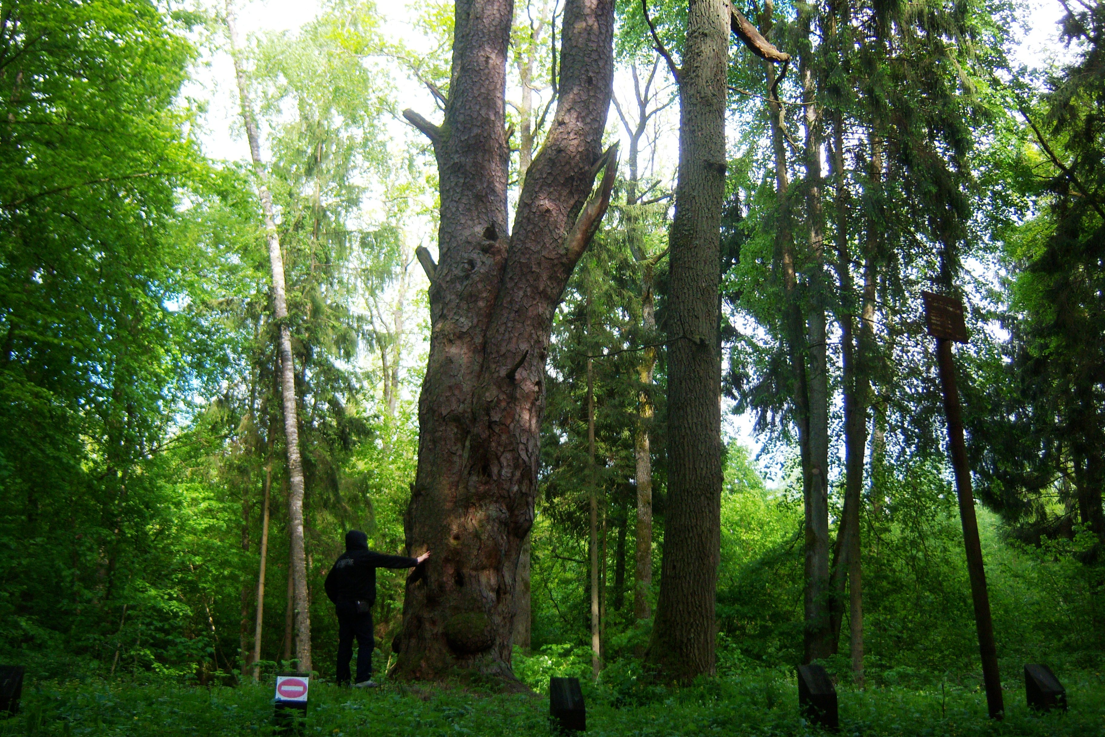 Thickest pine in Lithuania, Rumšiškių forest